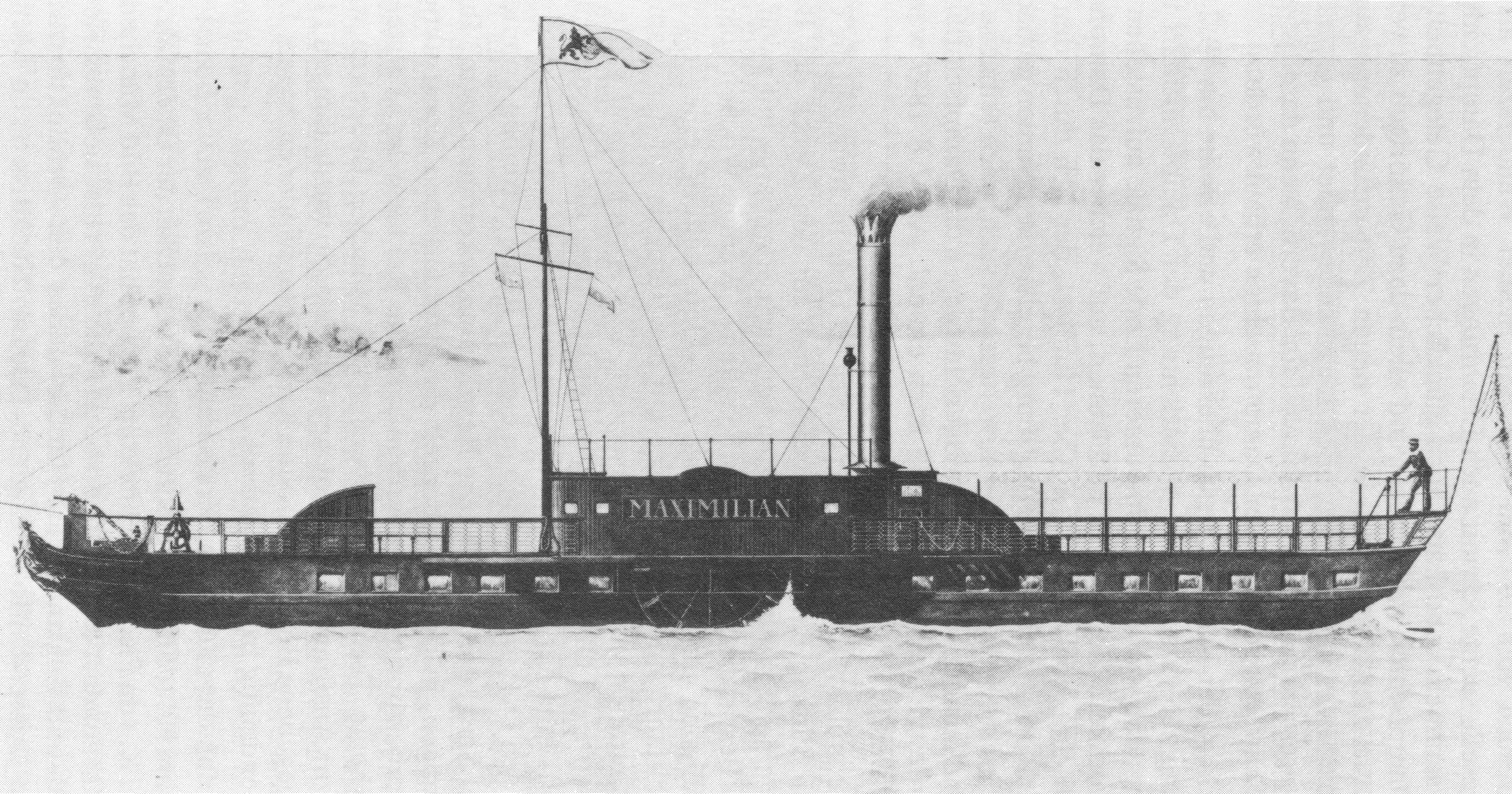 Das Dampfschiff Maximilian, Lithographie